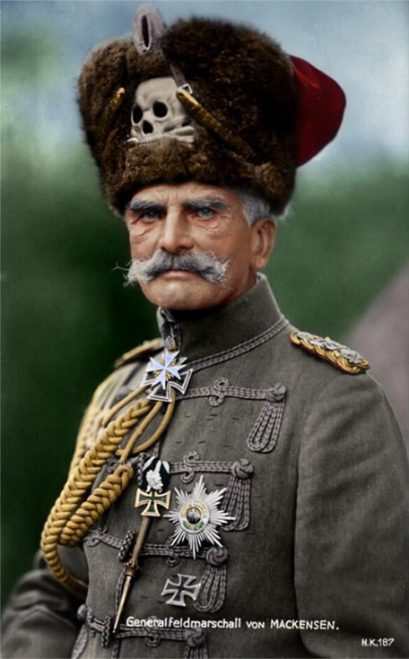 General Feldmarschall August Von Mackensen.Date between 1914 and 1915 date QS:P,+1914-00-00T00:00:00Z/8,P1319,+1914-00-00T00:00:00Z/9,P1326,+1915-00-00T00:00:00Z/9Source Unknown